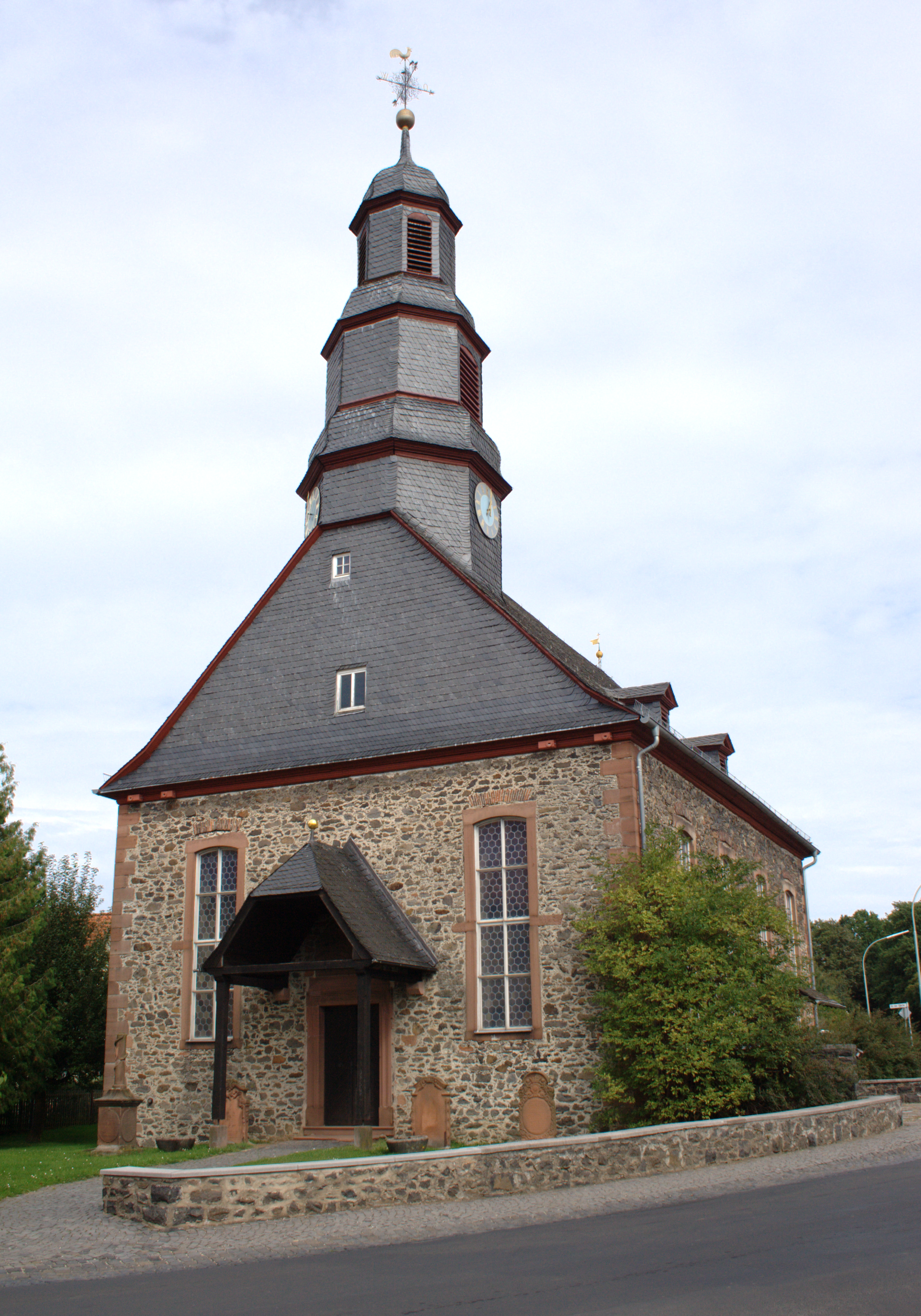 Church in Kefenrod / Hesse / GermanyThis is a photograph of an architectural monument.